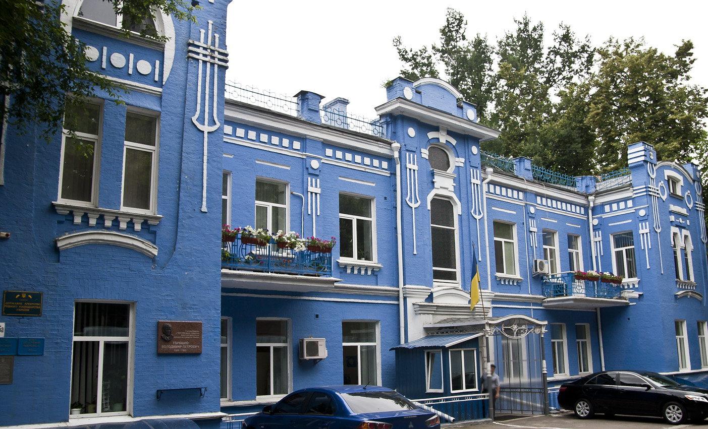 Building of first fishery in Russian Empire (1910), Kyiv, Artyoma str., 45A. Fishery Museum.